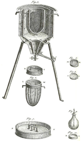 Ice-calorimeter from Antoine Lavoisier's 1789 Elements of Chemistry.